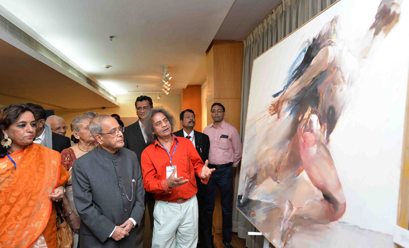 The President, Shri Pranab Mukherjee visiting the exhibition of Shri Shahbuddin Ahmed, organised by the Ganges Art Gallery, at ICCR, Kolkata, in West Bengal on December 12, 2015.